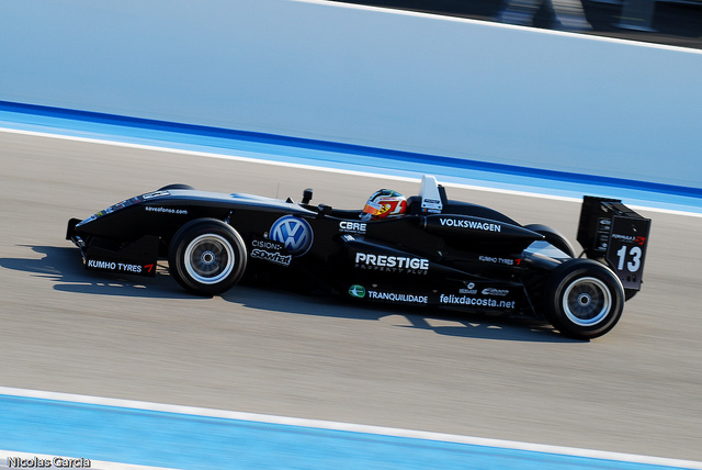 Formula 3 Euro Series 2010, race 2. LAINE Matias drives the #13 Dallara F308 Volkswagen of Motorpark Academy.